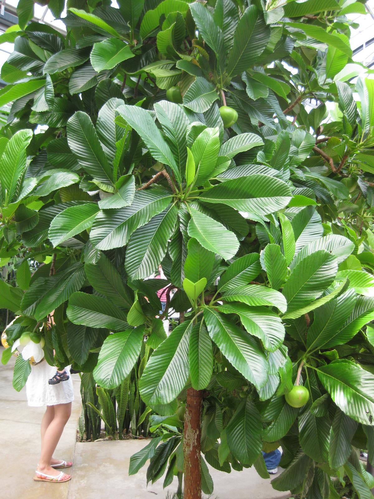 Photographed at Huntington Gardens (Los Angeles, California) in August